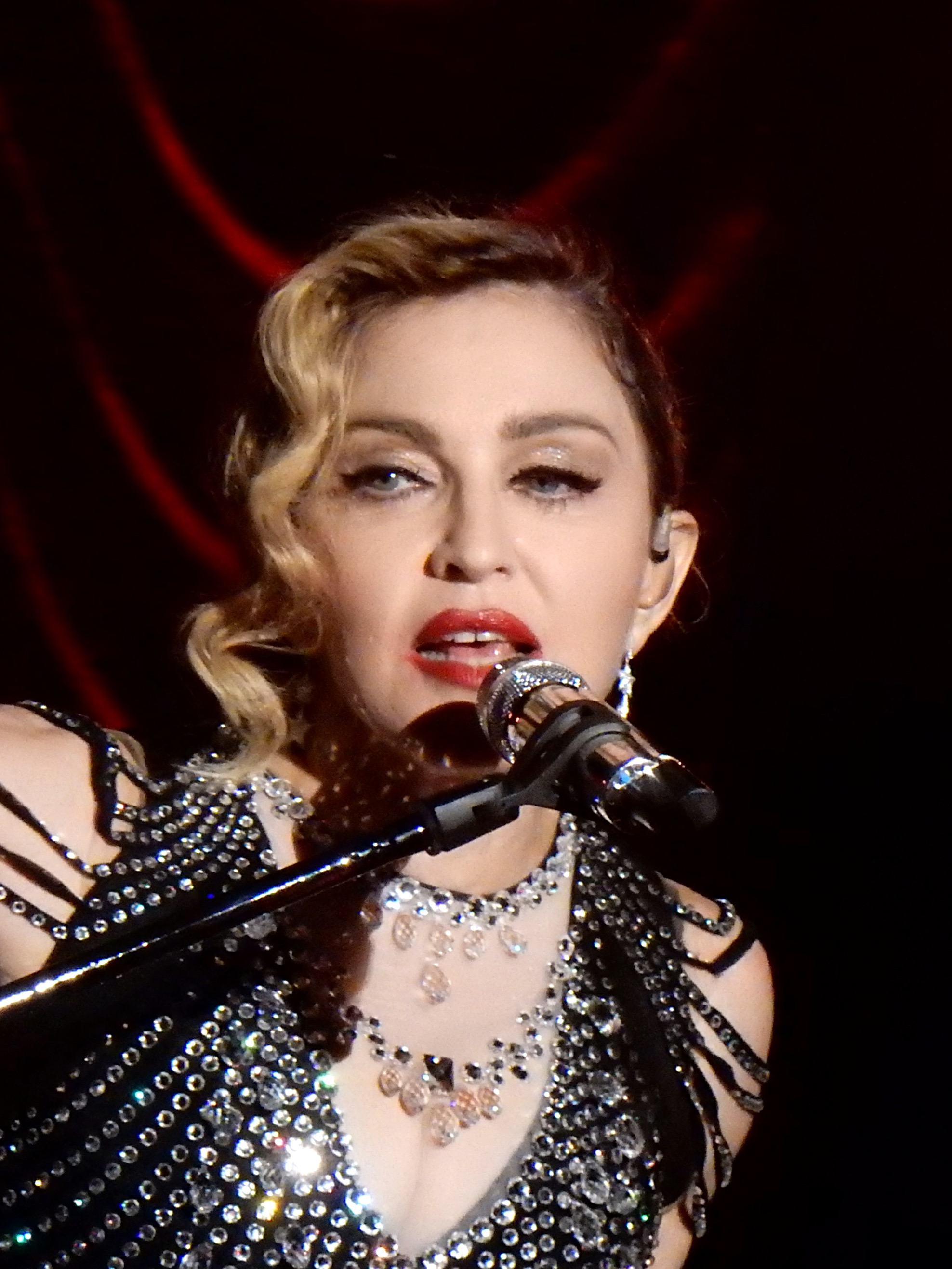 Madonna singing "La Vie en rose" during her concert in Antwerp as part of the Rebel Heart Tour.